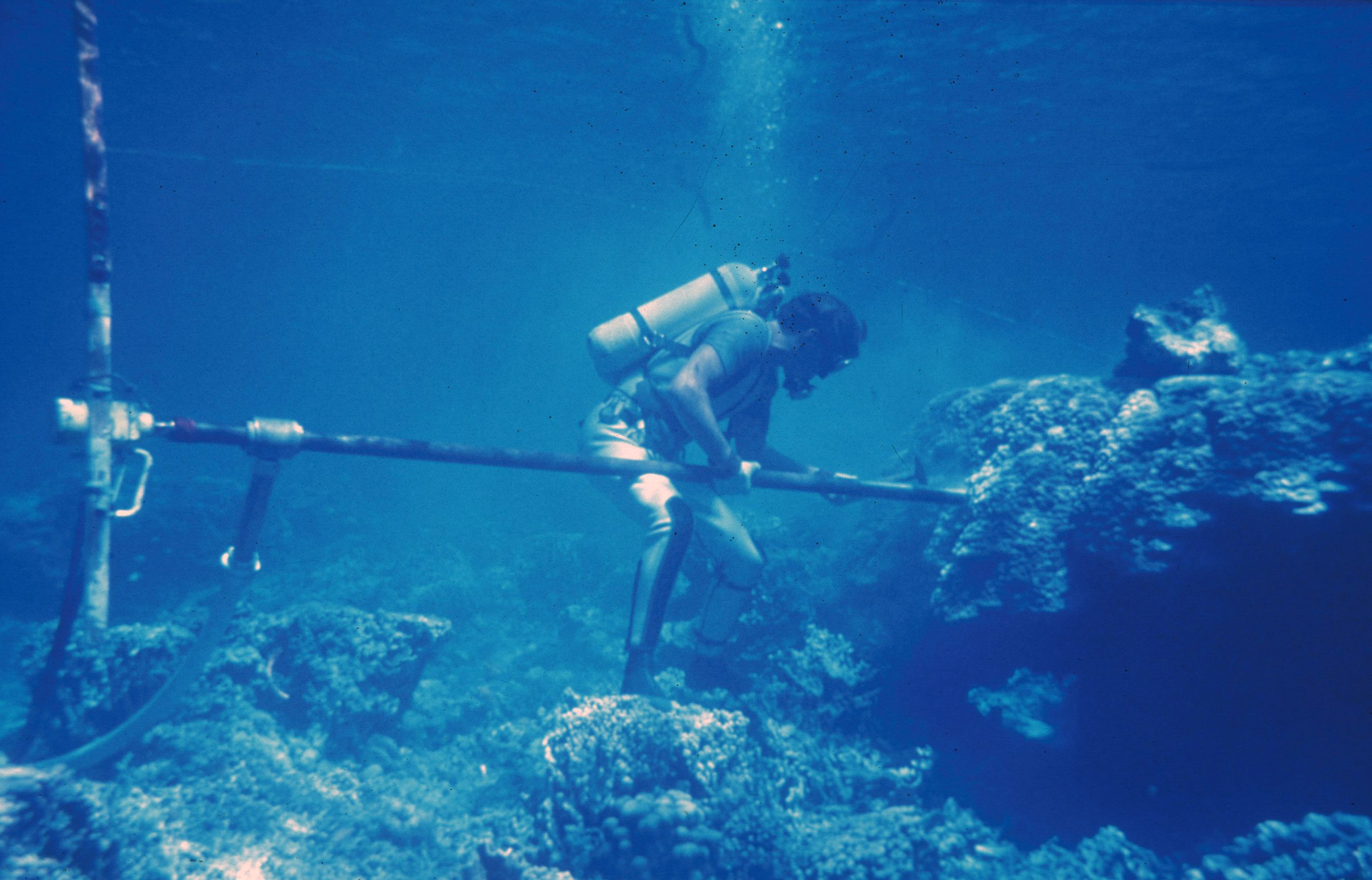 Palaeoclimate archives: Coral drilling on Mactan, Phillipines